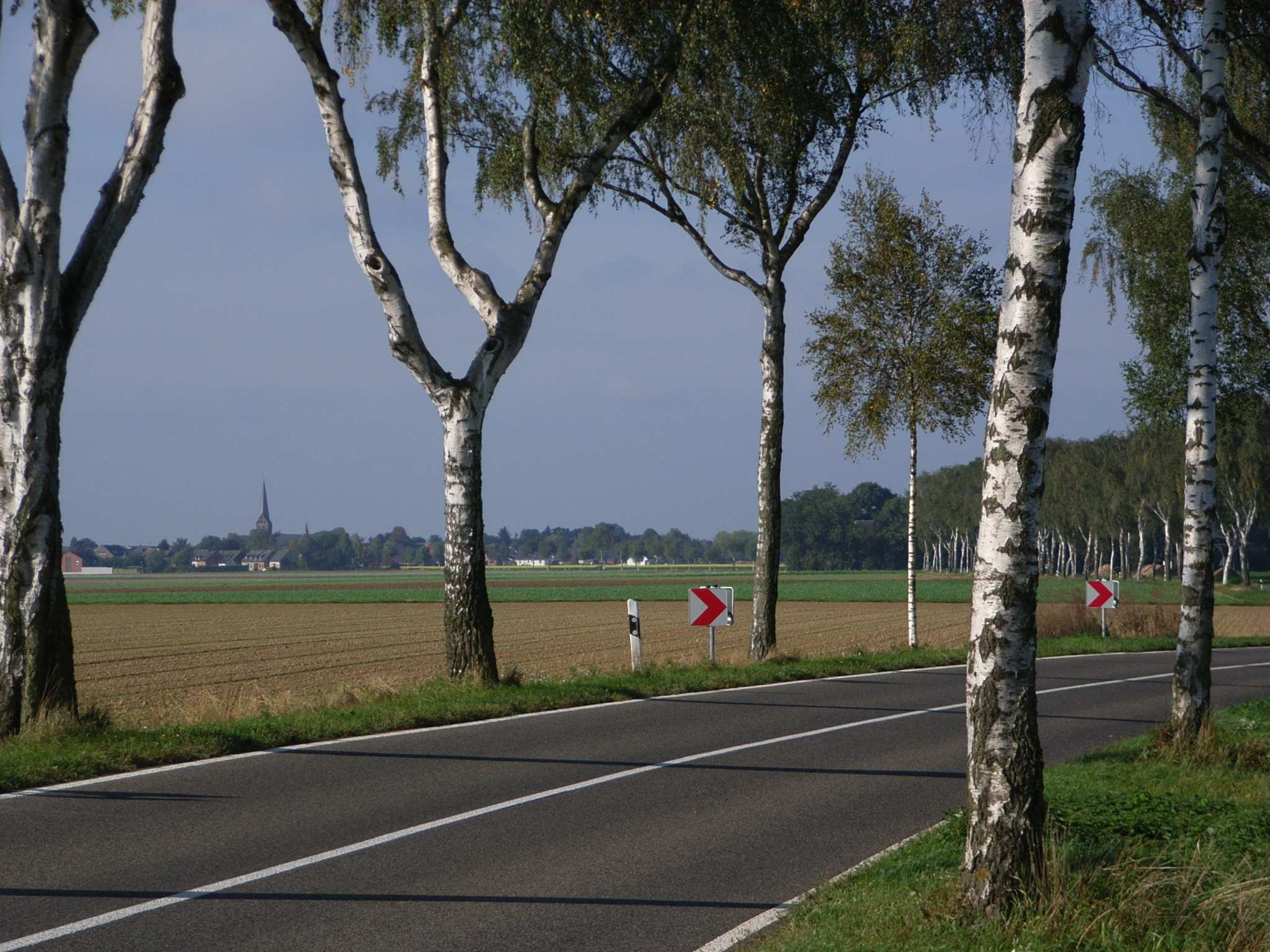 Village of Erkelenz-Katzem, view from the L117